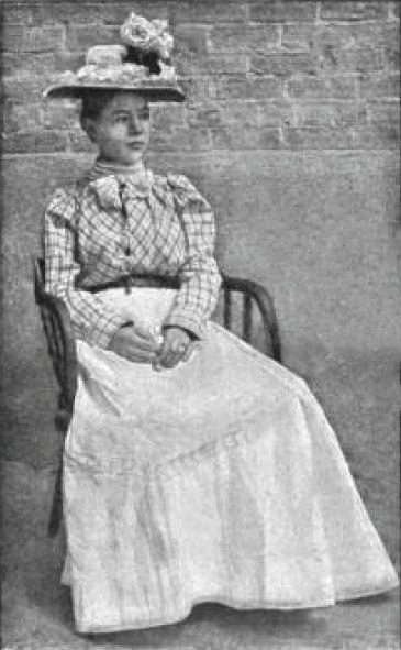 Pearl Hart in ordinary women's attire